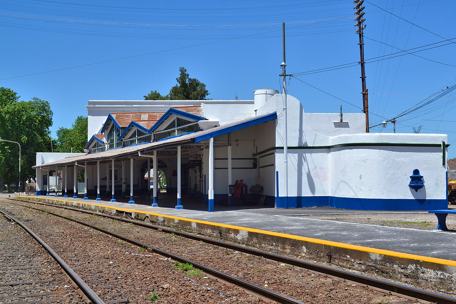 Old Chascomús train station.